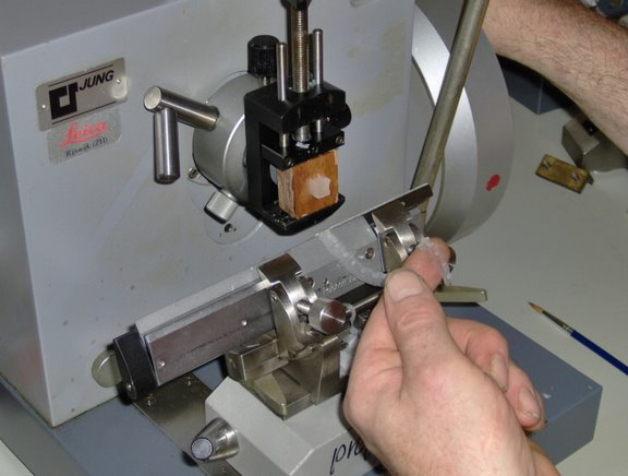 rotary microtome cutting a paraffin embedded specimen using a disposable blade. The paraffin embeded specimen is mounted on a small bloc of wood. Section thickness is 5 µm.